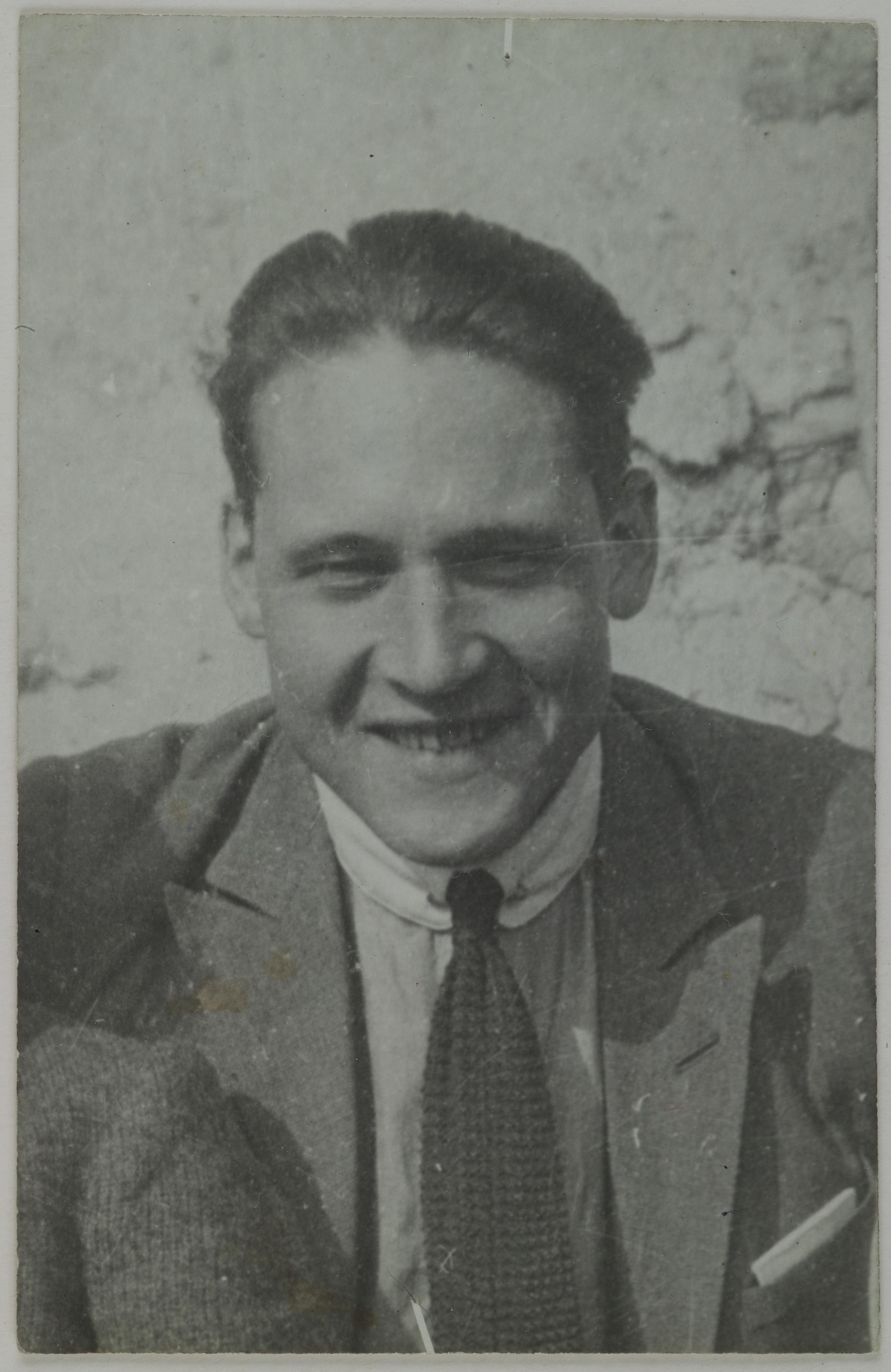 Jorma Gallen-Kallela Pariisissa. kuvauspaikka: Ranska, Pariisi ajoitus: 1920-luku kuvaaja: kuva-alan mitat: 140x90mm tekniikka: merkintöjä: inventointinumero: Kot. 2/65 kokoelma: Akseli Gallen-Kallelan valokuvakokoelma tutki lisää / explore further: Tiedätkö lisää tästä kuvasta? Kerro meille! Do you have information on this photo? Let us know!